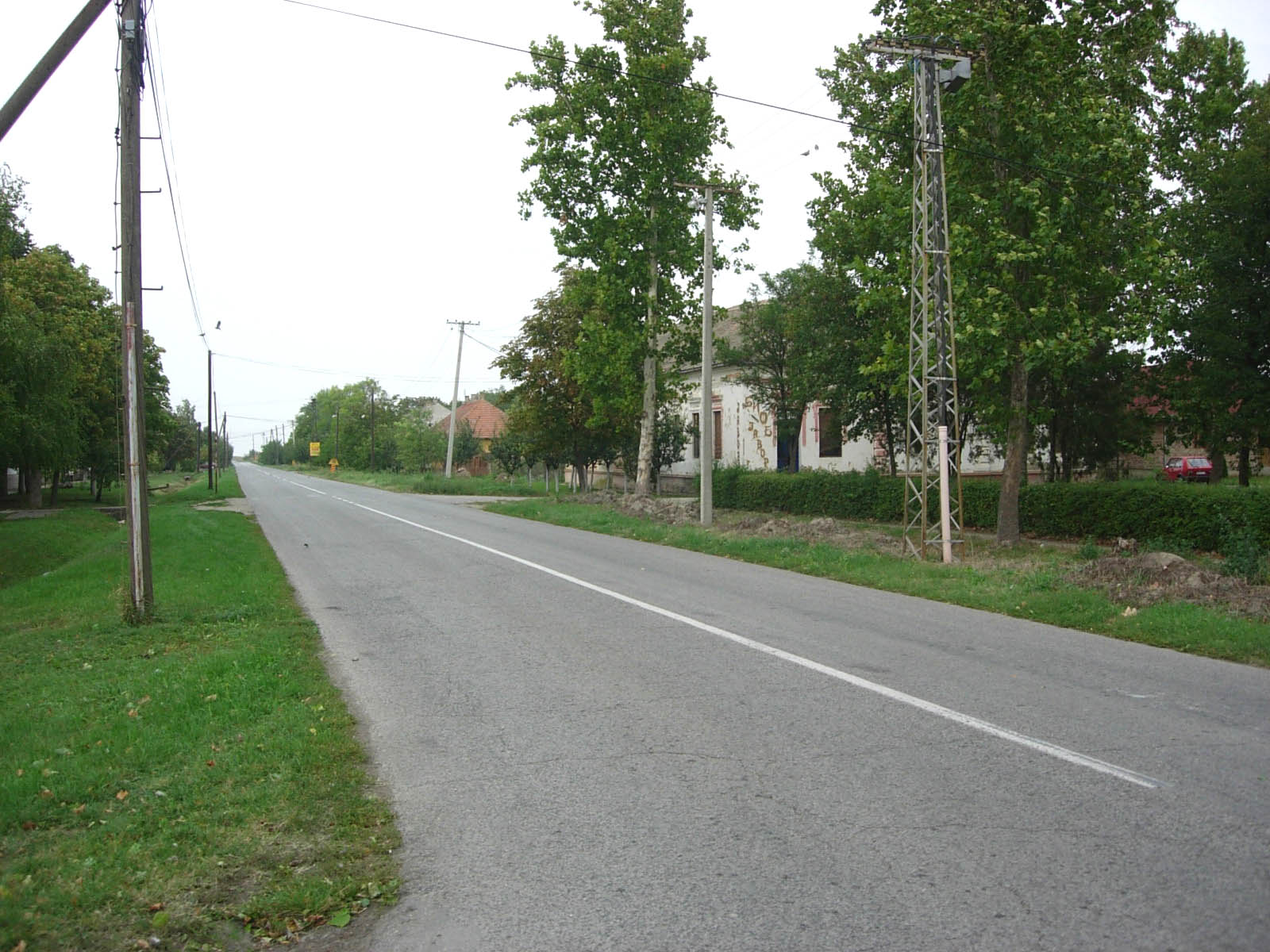 Street detail in Sutjeska. Here in the middle of the road stood the Catholic church until 1960. At first it was damaged by fire, and later razed.